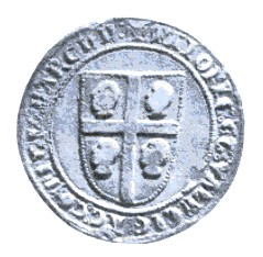 Alfonso III of Aragon